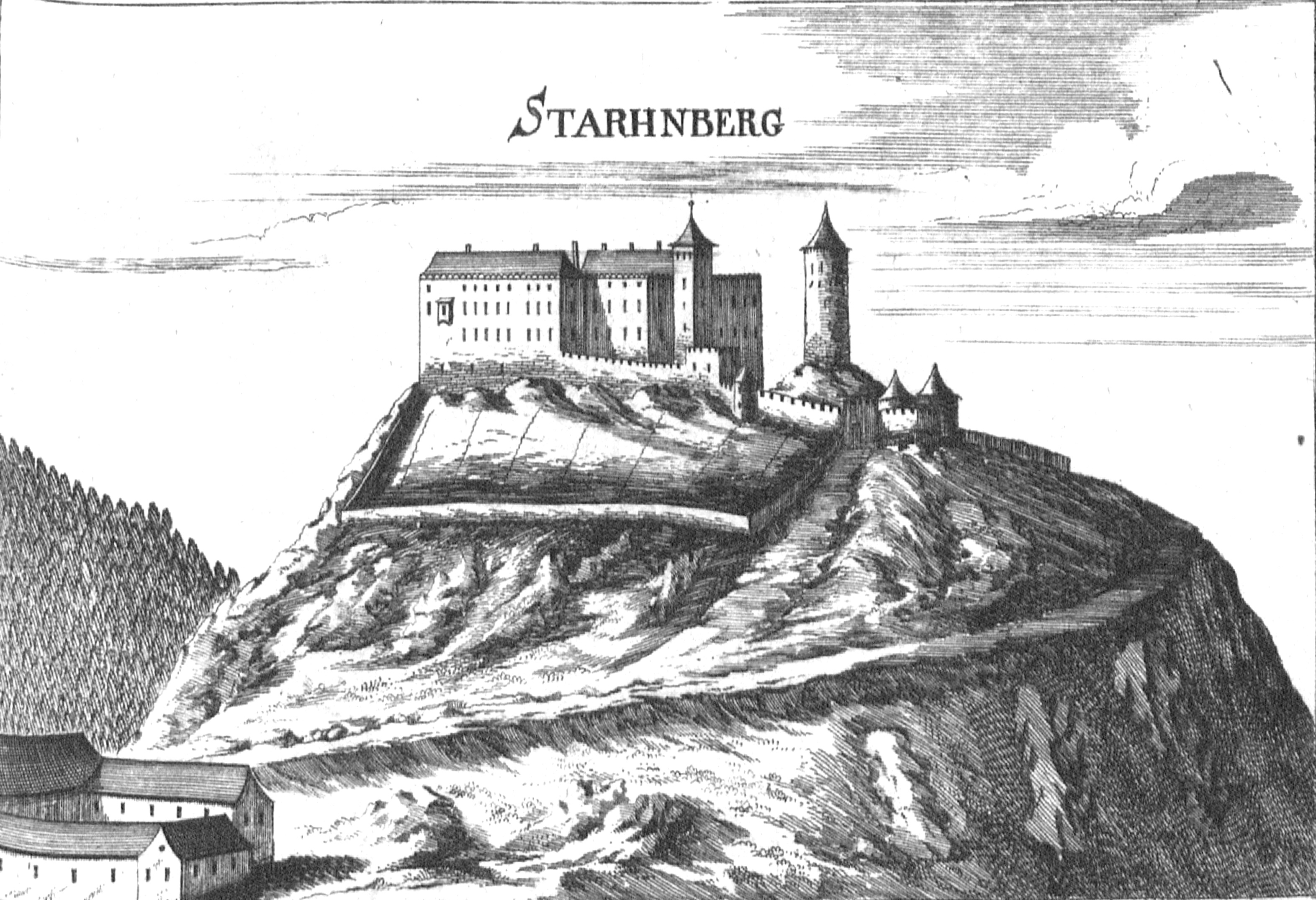 Castle Starhemberg in Lower Austria. Copper engraving by Georg Matthäus Vischer, 1672.